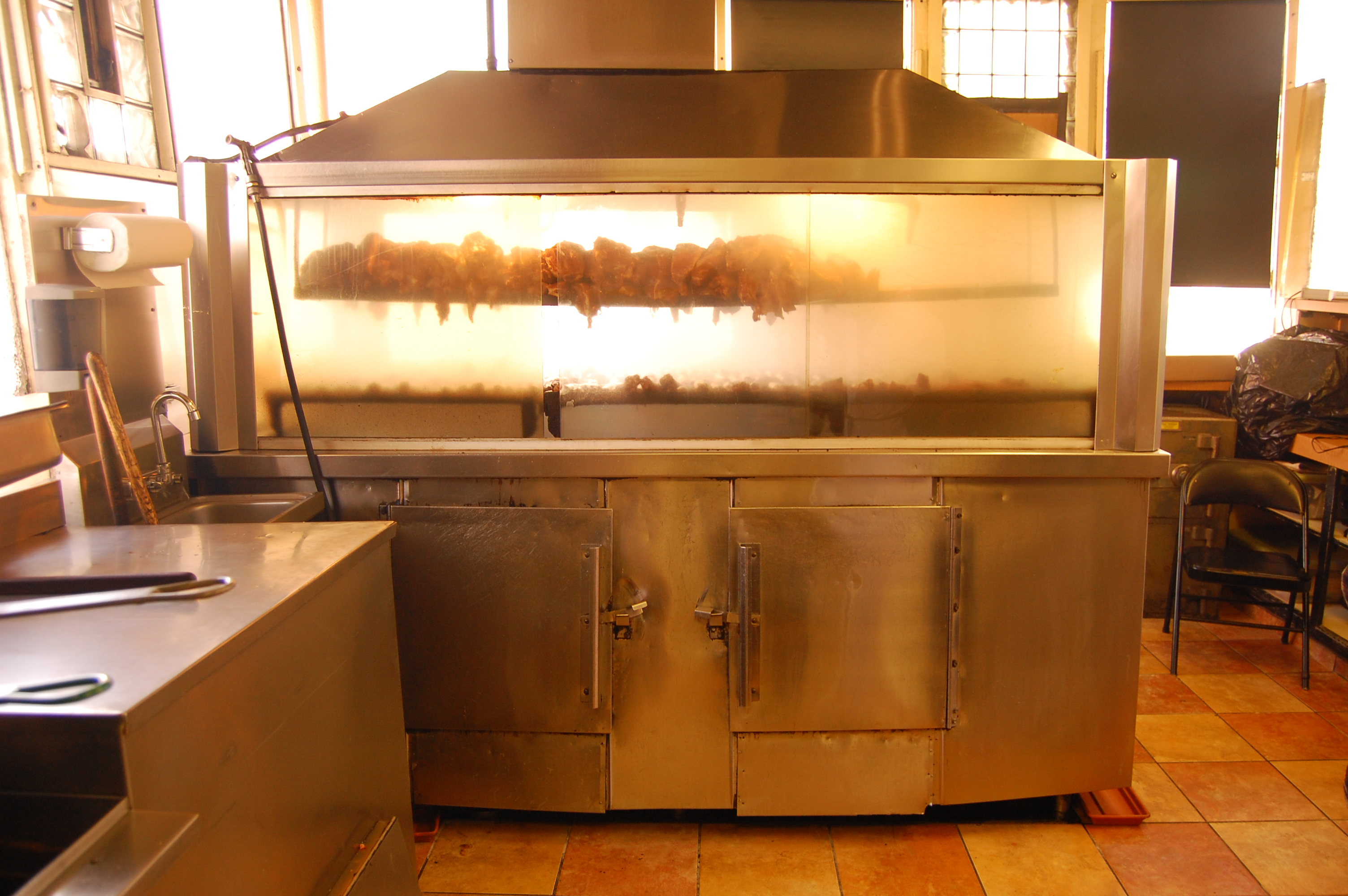 Lem's Bar-B-Q- Chicago, IL Photo by Amy C Evans, SFA oral historian March 2008